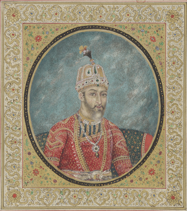 A portrait of Akbar II